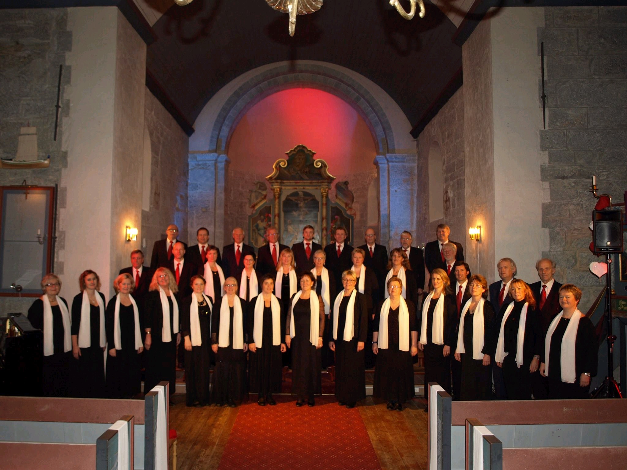 The Norwegian choir Helgeland Kammerkor before a Christmas concert in Herøy Church, Nordland